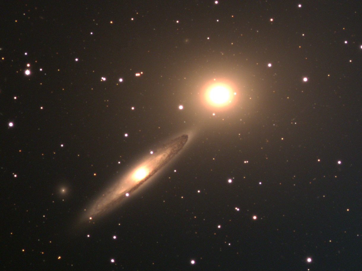 A pair of galaxies NGC 5090 - 5091 in Centaurus is shown in this image. They are located at about the same distance as ESO 269-57 and may belong to the same cluster of galaxies. This is an interacting elliptical-spiral system with some evidence of tidal disruption of NGC 5091 (to the left; seen under a steep angle) by NGC 5090 (to the right). The velocity of the nucleus of NGC 5091 has been measured as 3429 km/sec, while NGC 5090 has a velocity of 3185 km/sec. NGC 5090 is associated with a strong, double radio source (PKS 1318-43). This three-colour composite (BVR) was obtained with VLT UT1/ANTU and its FORS1 instrument in the morning of March 29, 1999. A bright star in the Milky Way, just outside the field at the upper left, has produced a pattern of blue straylight. The field size is 6.8x6.8 arcmin 2. North is up and East is to the left.